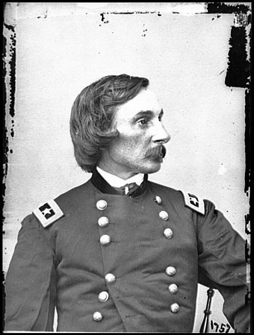 Gouverneur K. Warren Library of Congress Civil War collection